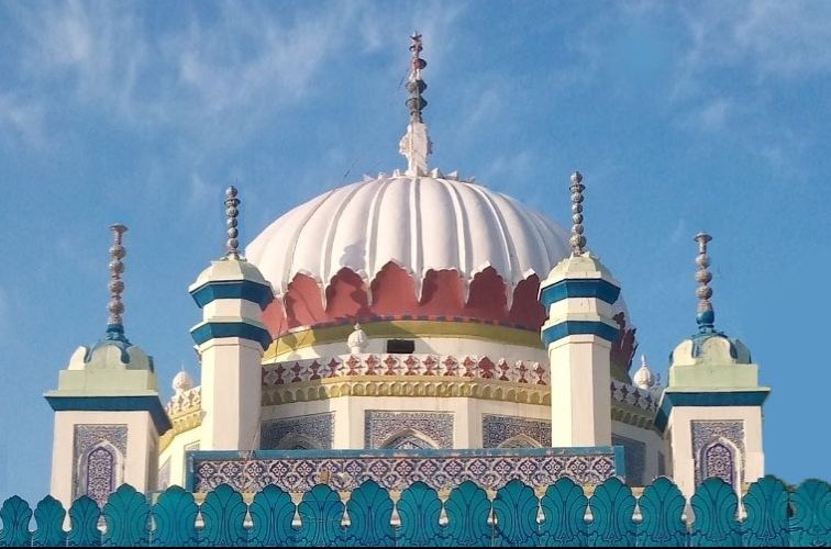 Dargha Jilani,duthro sharif,Sanghar,Sindh